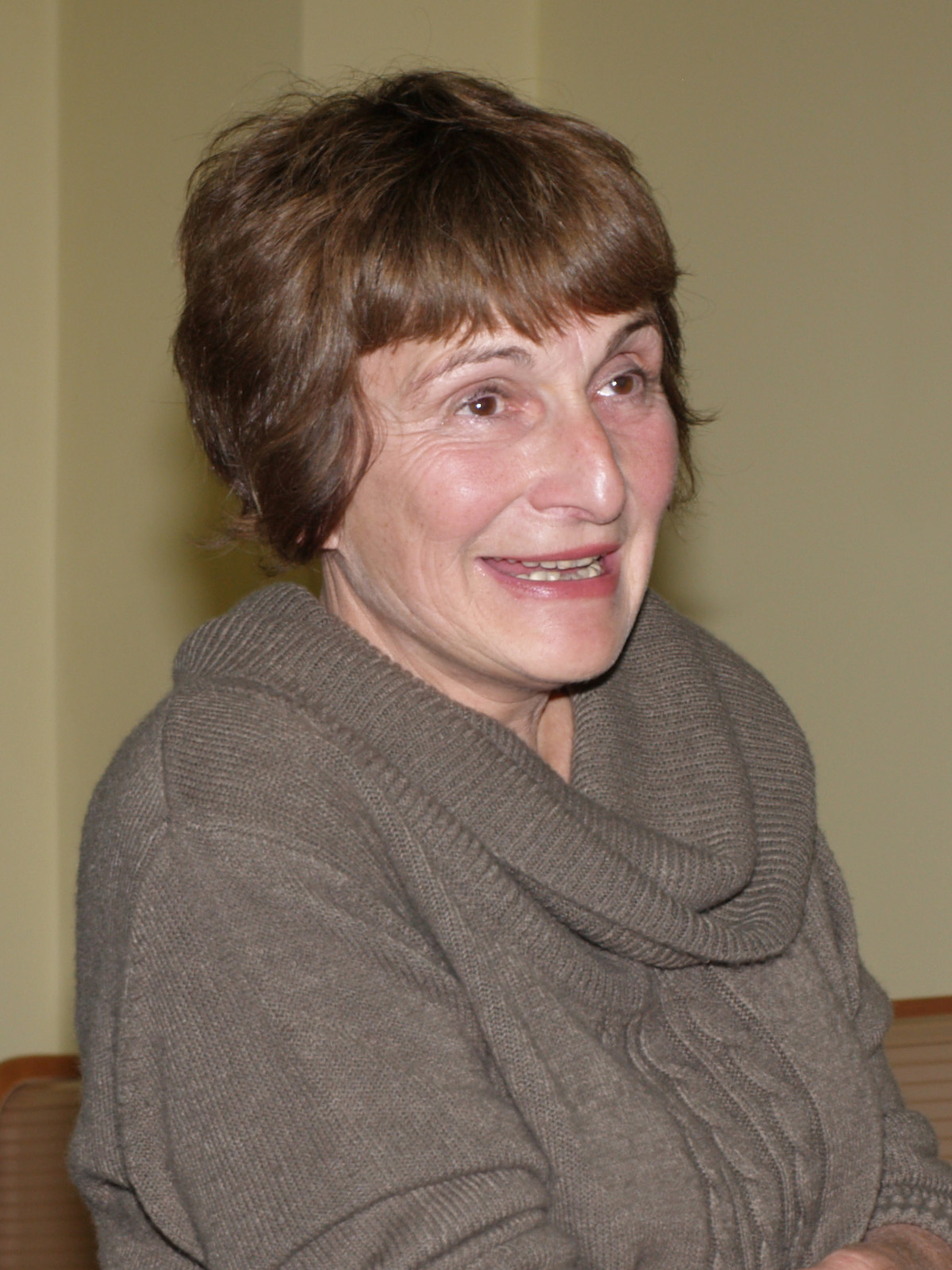 Czech writer and dubbing director Olga Walló